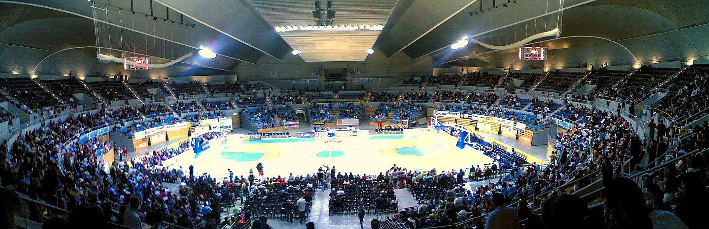 Sports Palace of Santander. Match of basketball between the Cantabria Wolves and the C.B. Tarragona.